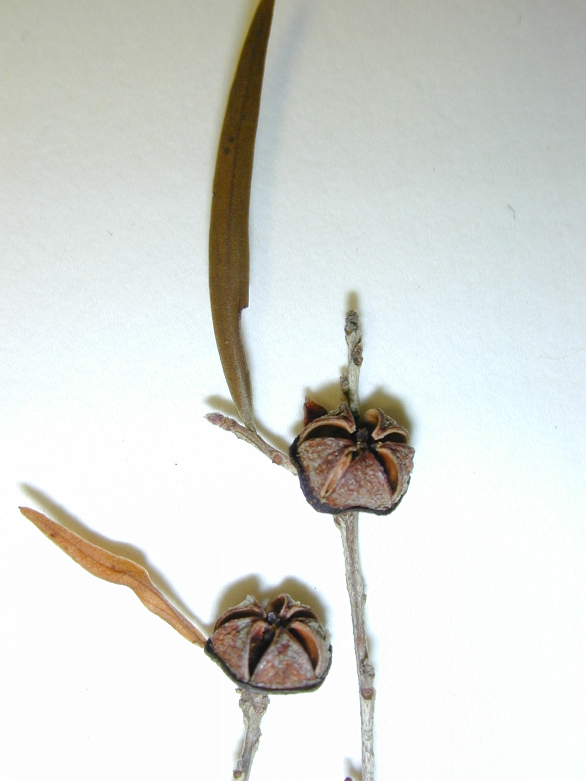 Leptospermum petersonii (BISH specimen seed capsules). Location: Hawaii, Hilo